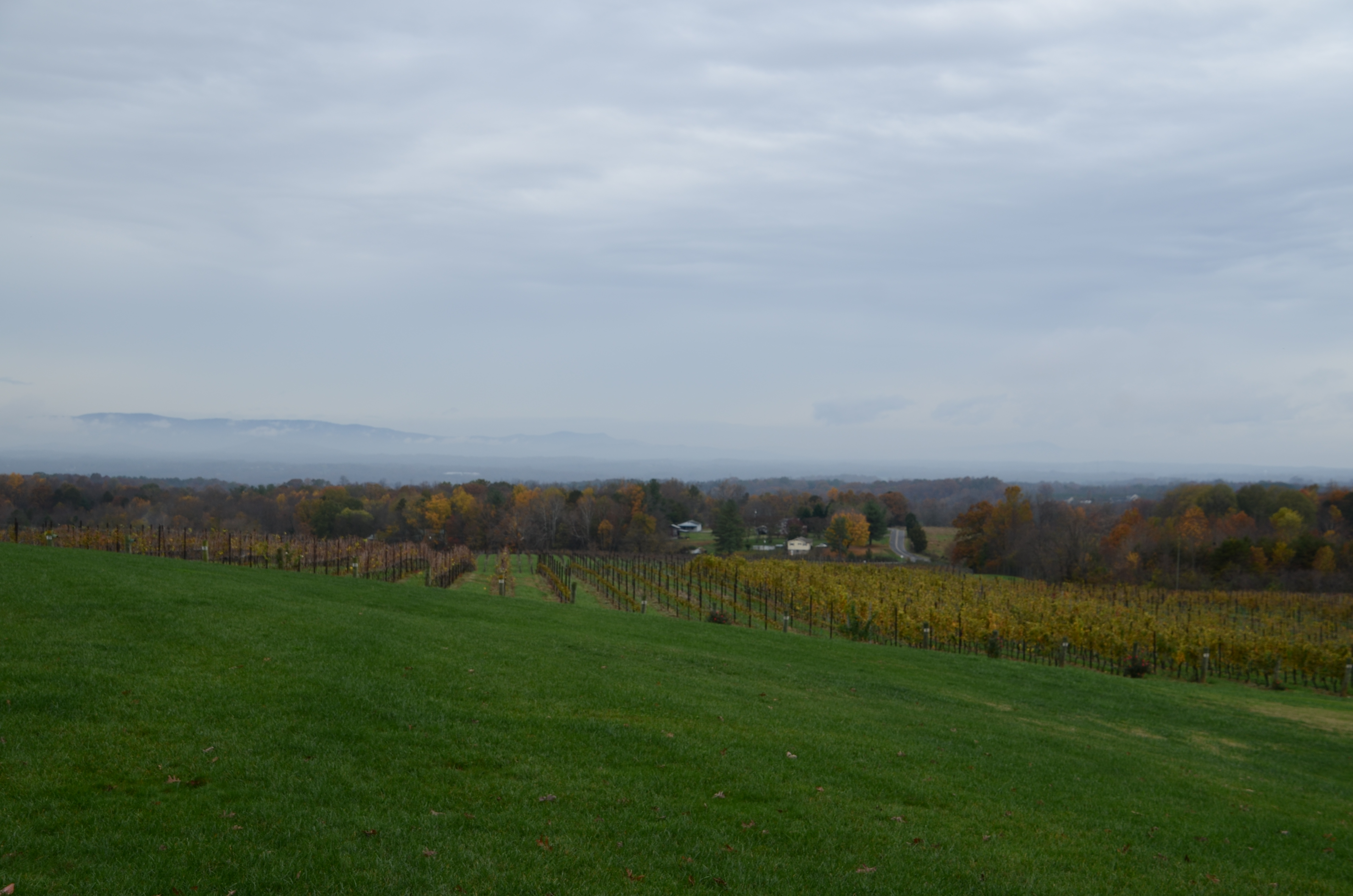 Vineyard in the North Carolina Piedmont Region